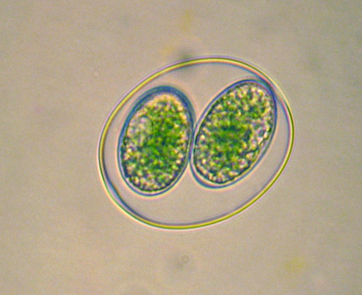 Glaucophyte: notice the clear cell wall enveloping the two daughter cells, not mucilage.